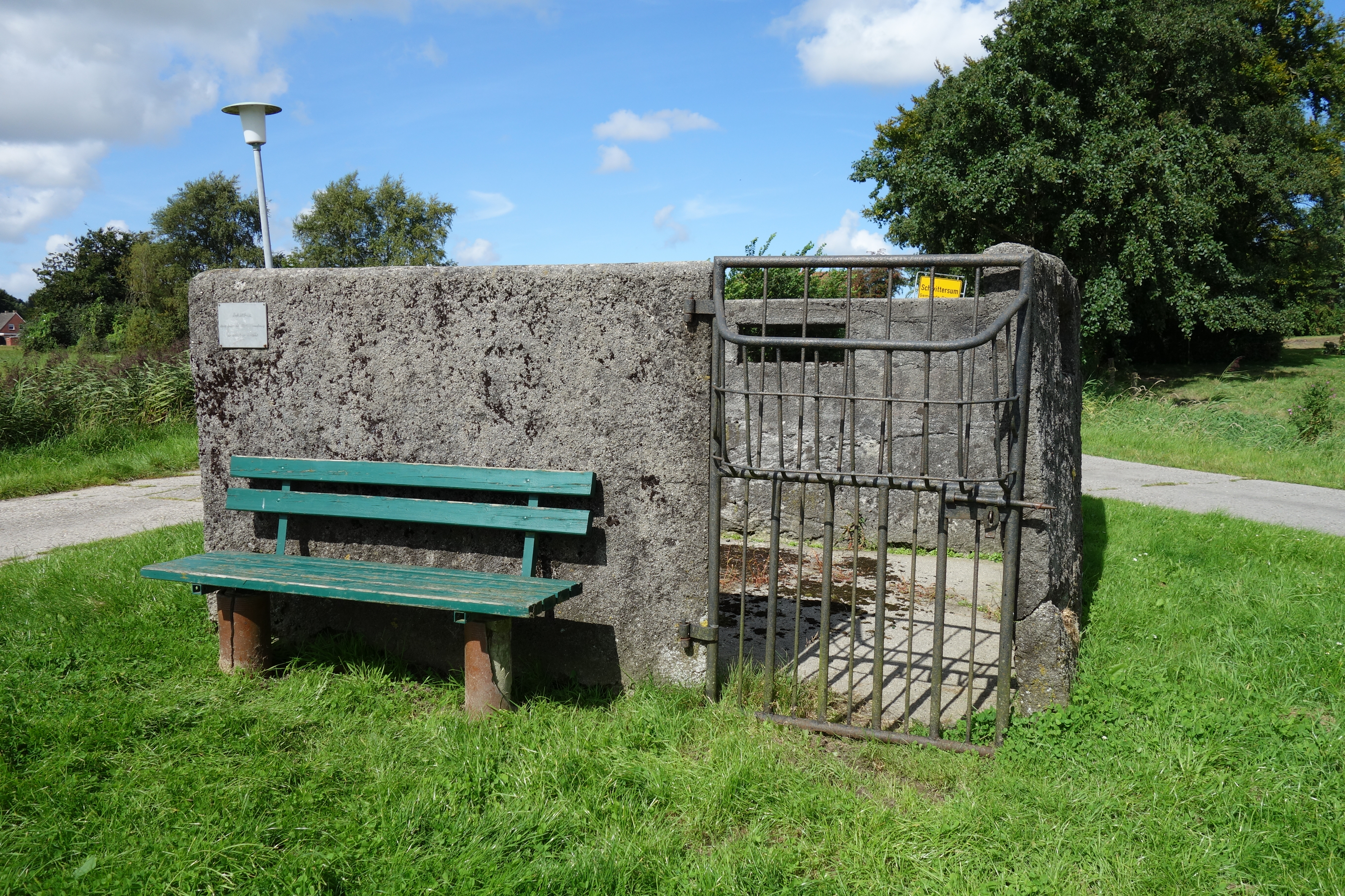 Schüttkau is a former East Frisian pen for escaped cows